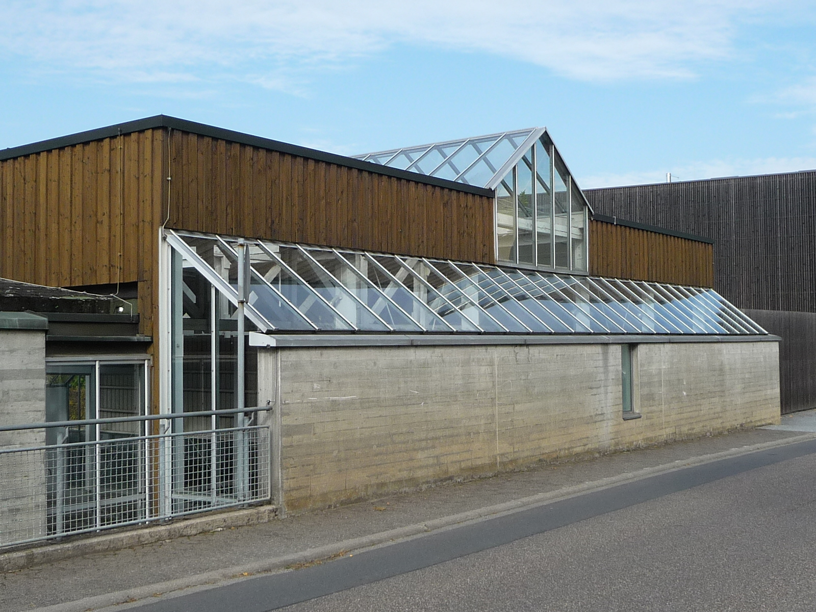 Römermuseum Osterburken